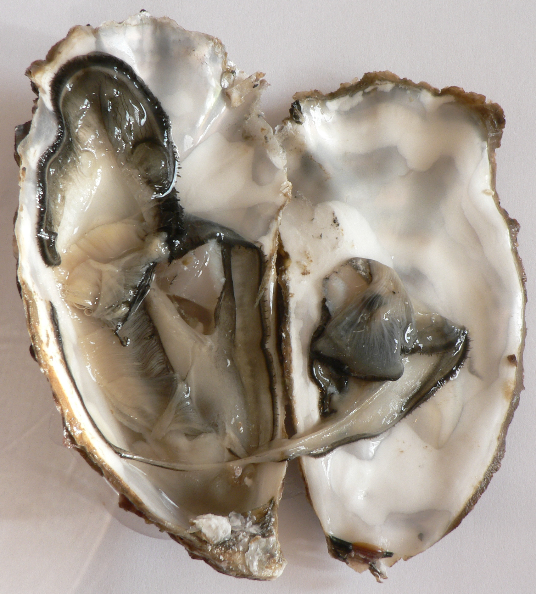 Oyster from Marennes-Oléron